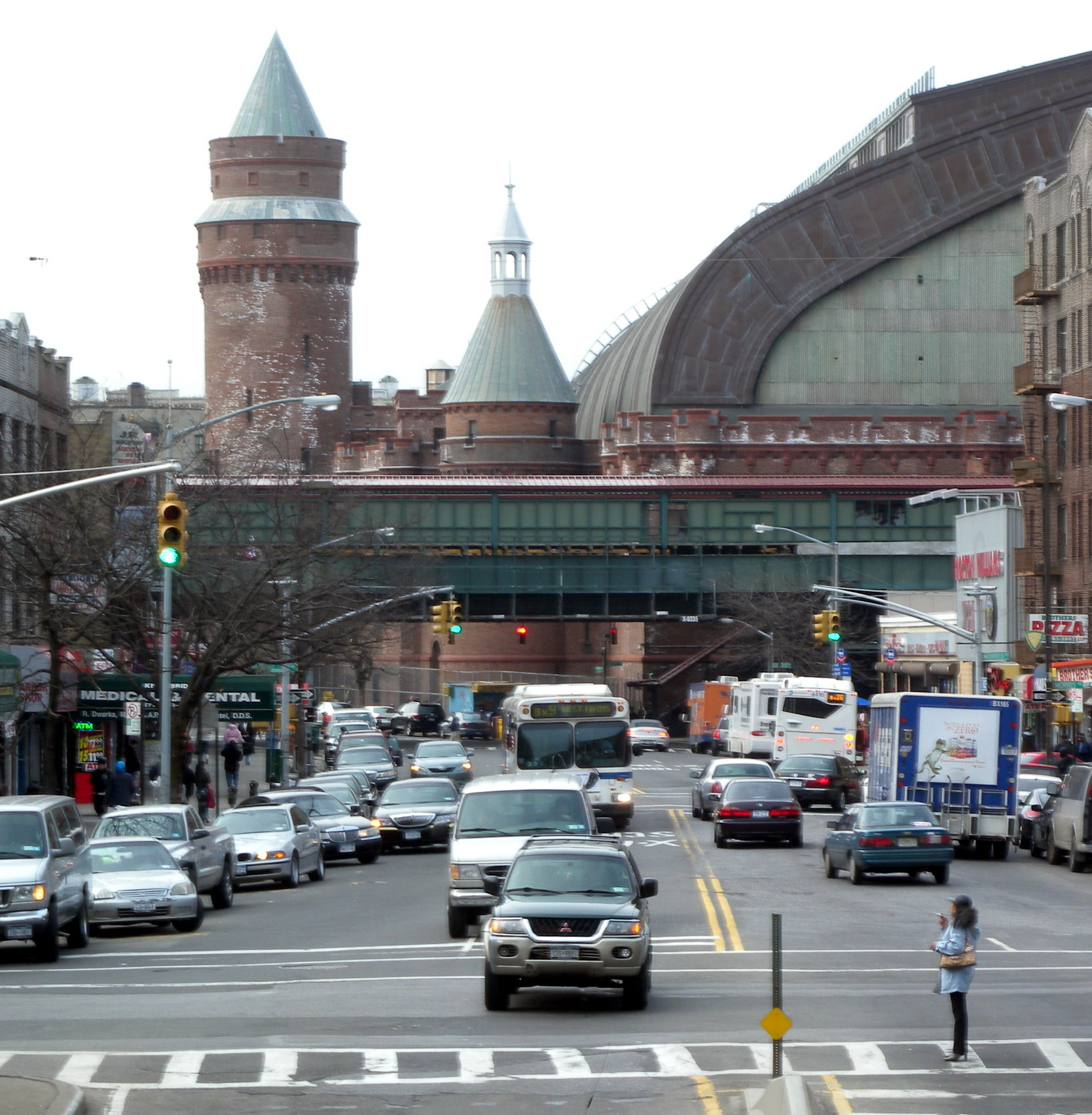 Looking northwest, full zoom, from Grand Concourse at Kingsbridge Road (IRT Jerome Avenue Line) with armory in background, on a cloudy afternoon.